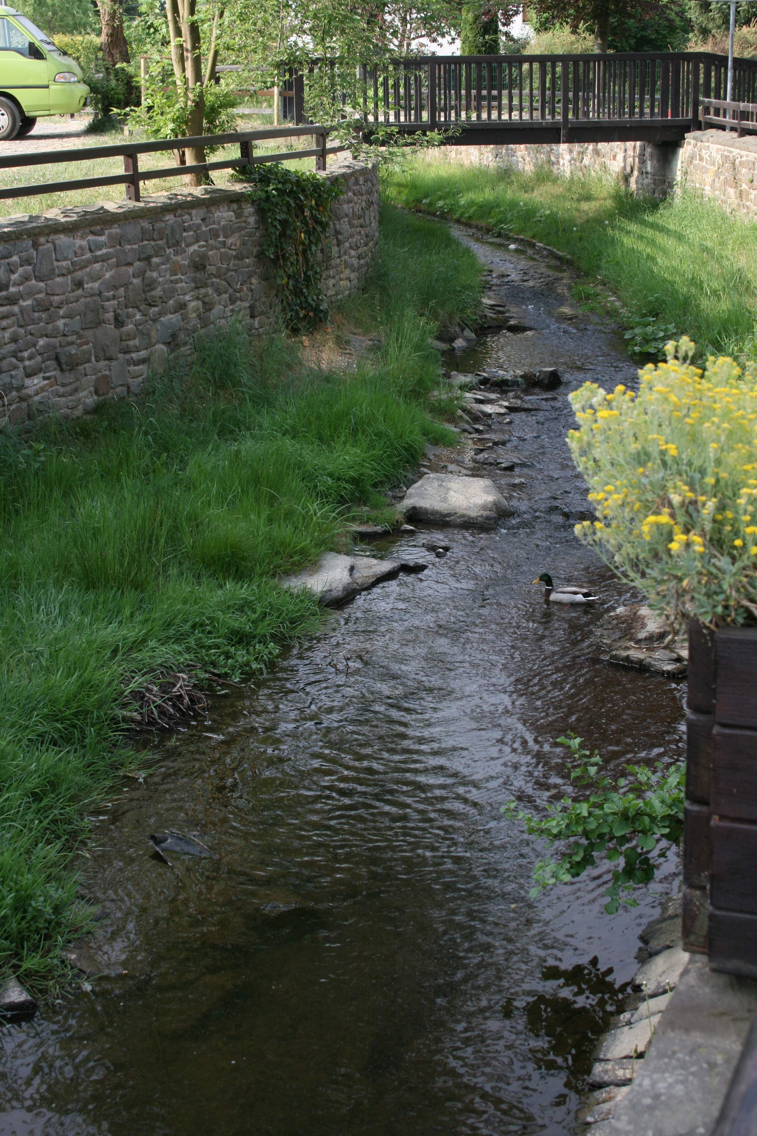 Lower course of the river Eipbach in Eitorf.